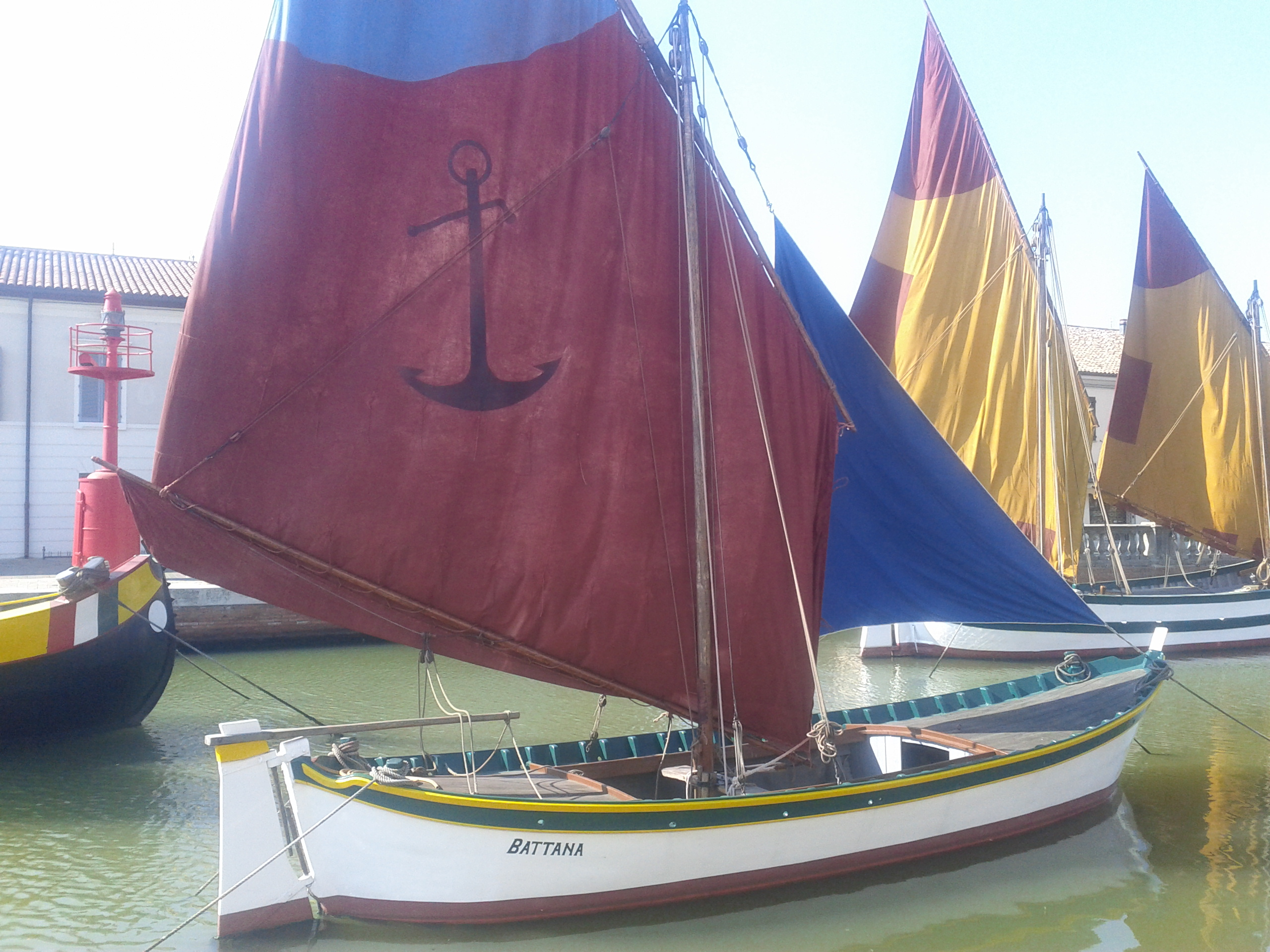 A Battana ship at the museum of Cesenatico (Italy)